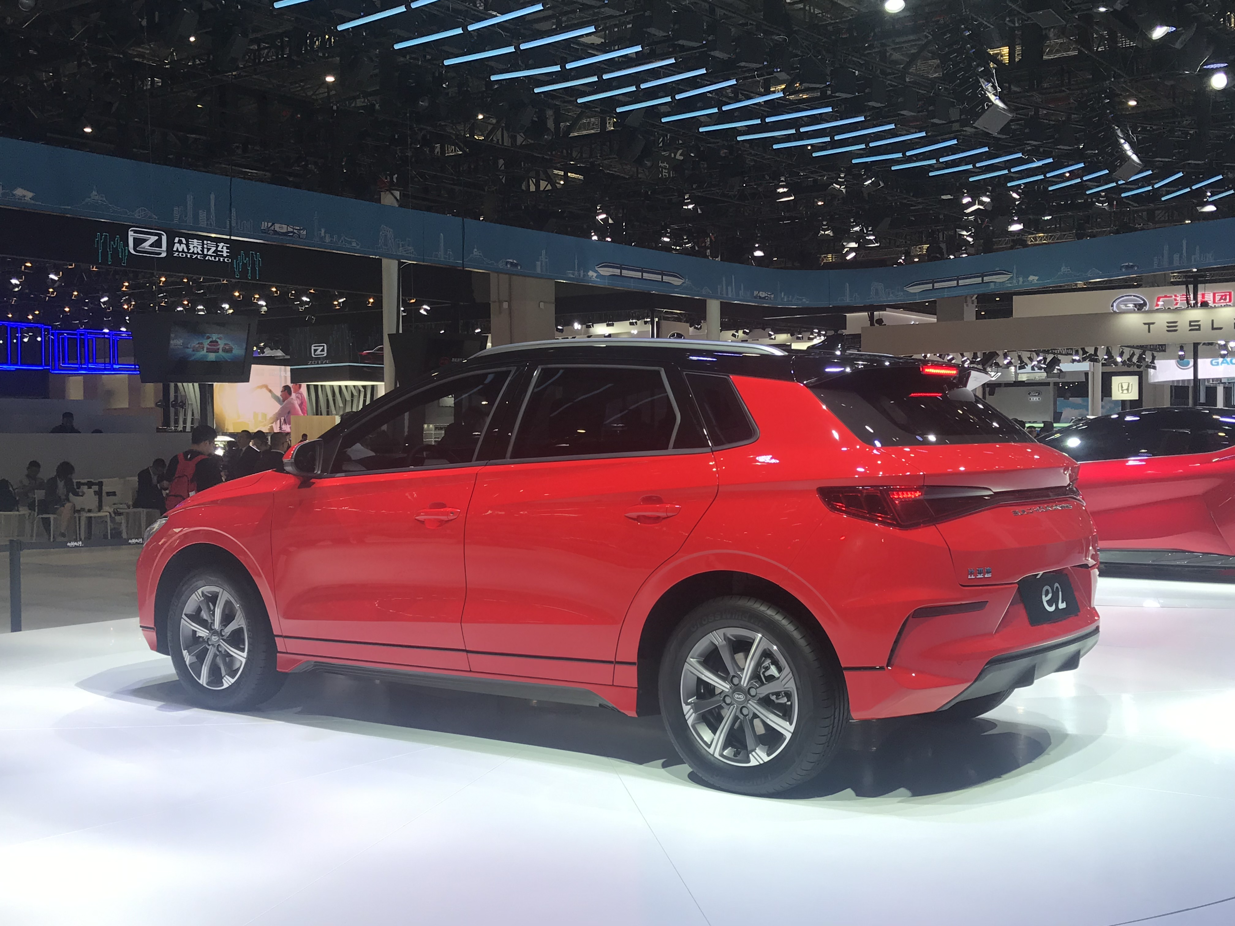 BYD e2 rear